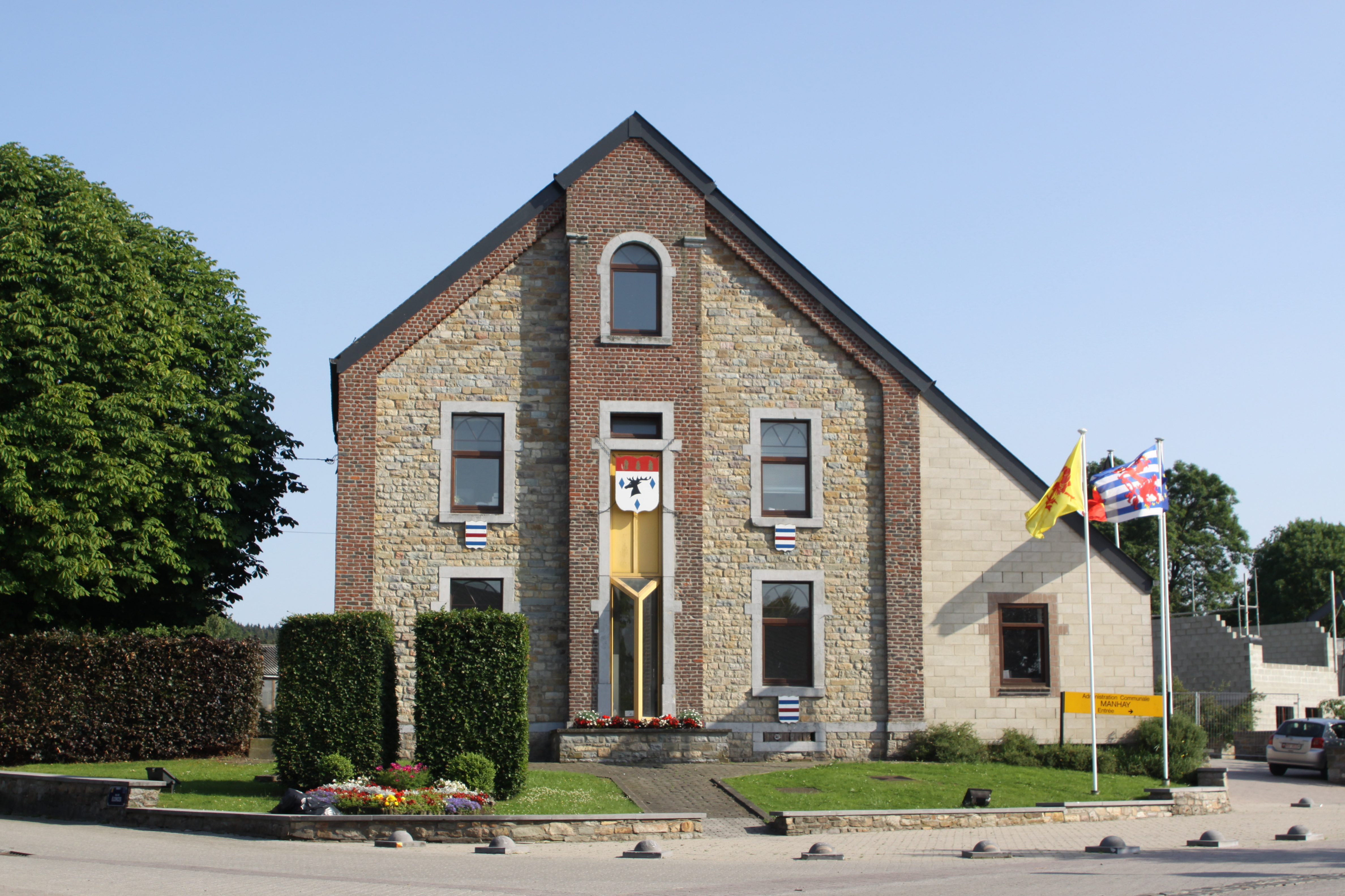 Townhall in Manhay